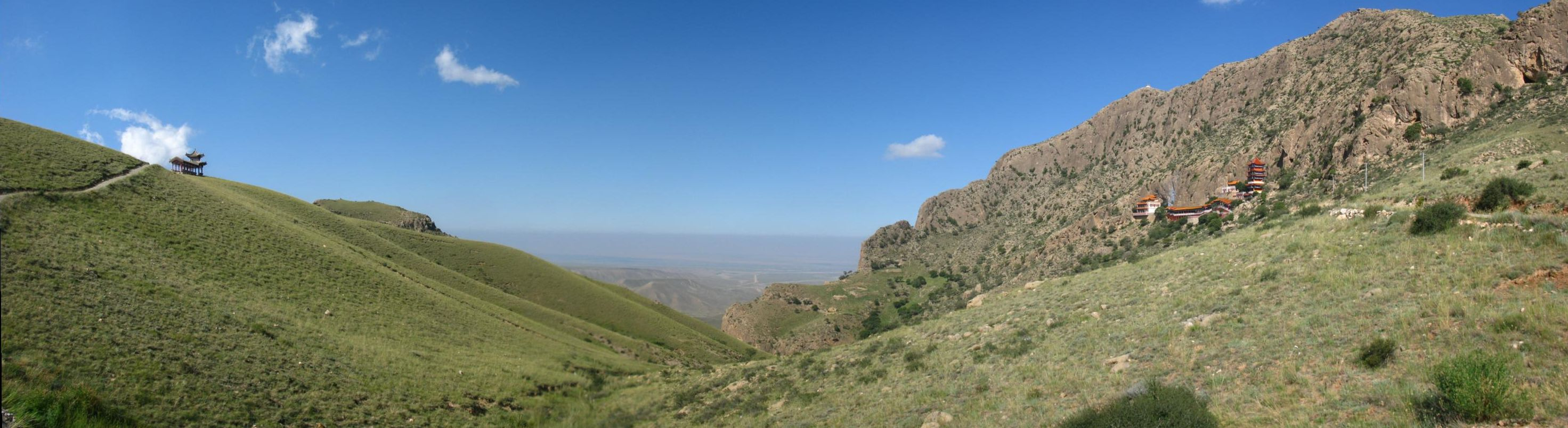 Panorama of the valley of the hanging temple